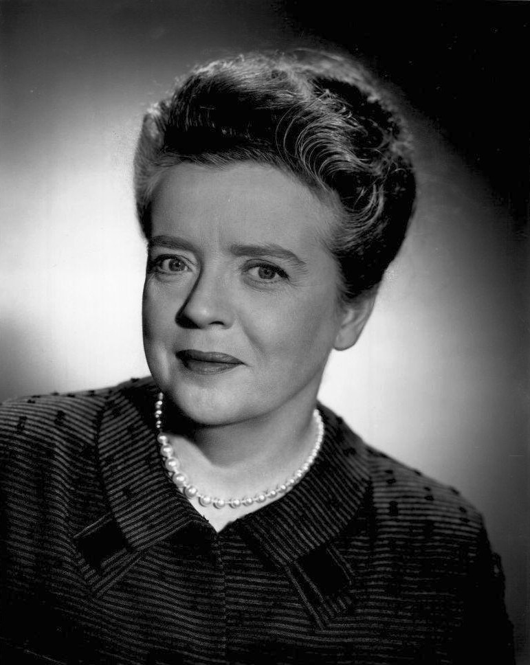 Photo of actress Frances Bavier, who is probably best known for her role as "Aunt Bea" on The Andy Griffith Show.